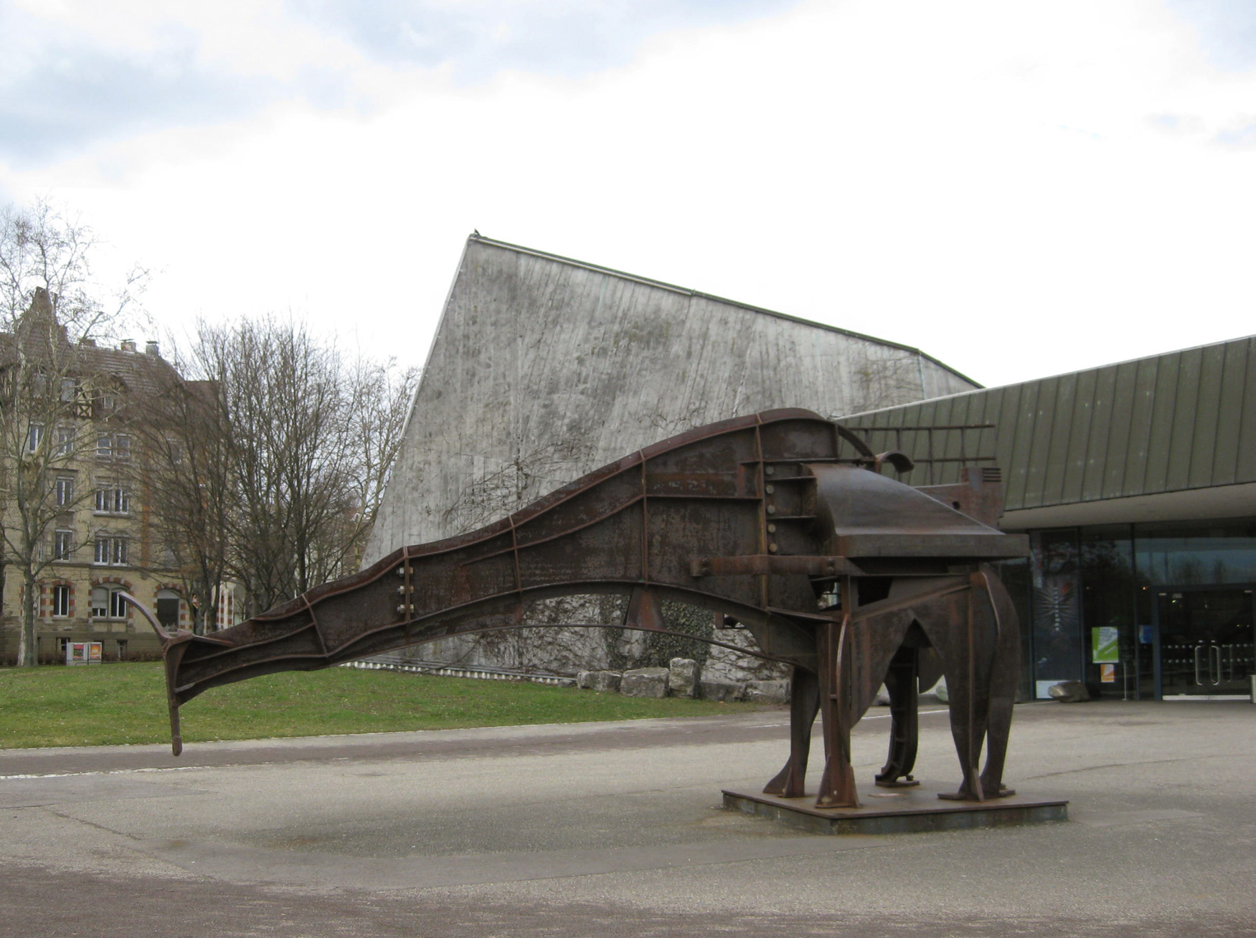 Sculptures in Stuttgart, Bernhard Luginbühl, Naturkundemuseum am Löwentor, Saurier, 1982-84